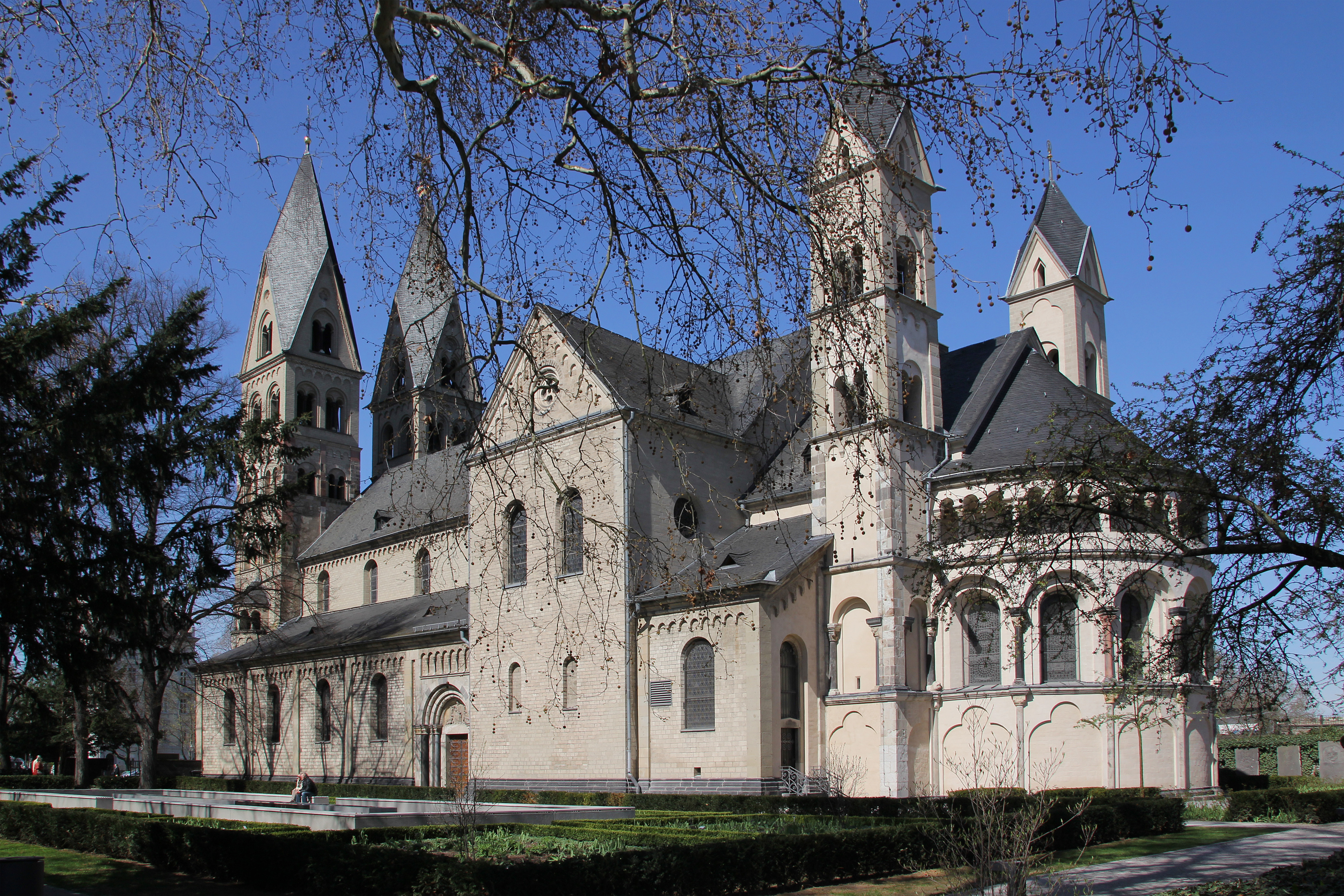 Basilica of St. Castor in Koblenz